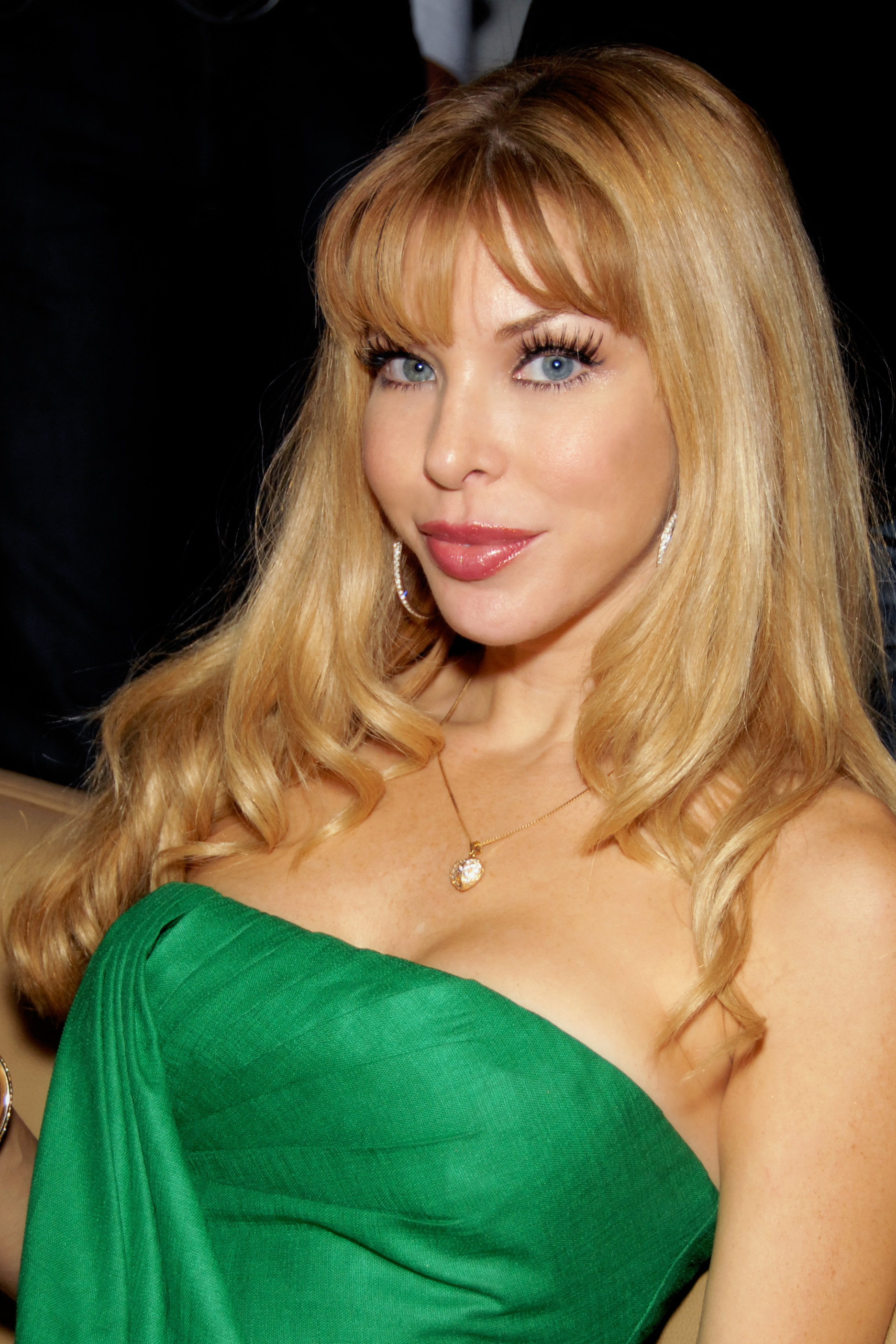 Jennifer Lyons at Area, West Hollywood, CA on December 12, 2008 - Photo by Glenn Francis of